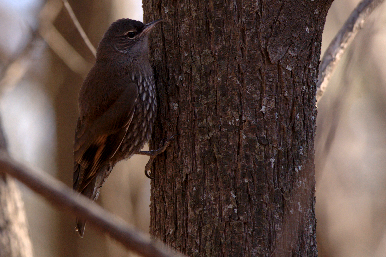 A juvenile White-browed Treecreeper in Australia.